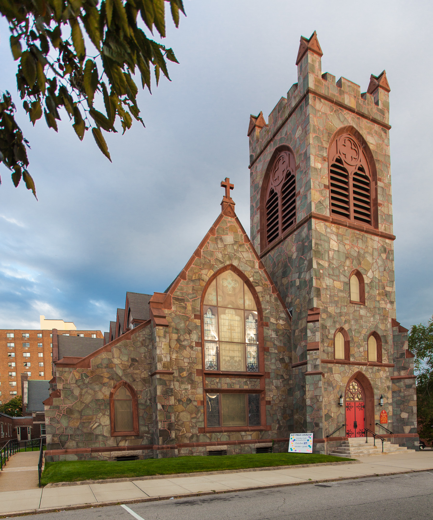 St. Paul's Church Pawtucket RI 50 Park Pl. Providence County, Rhode Island Listed on NRHP 1983-11-18